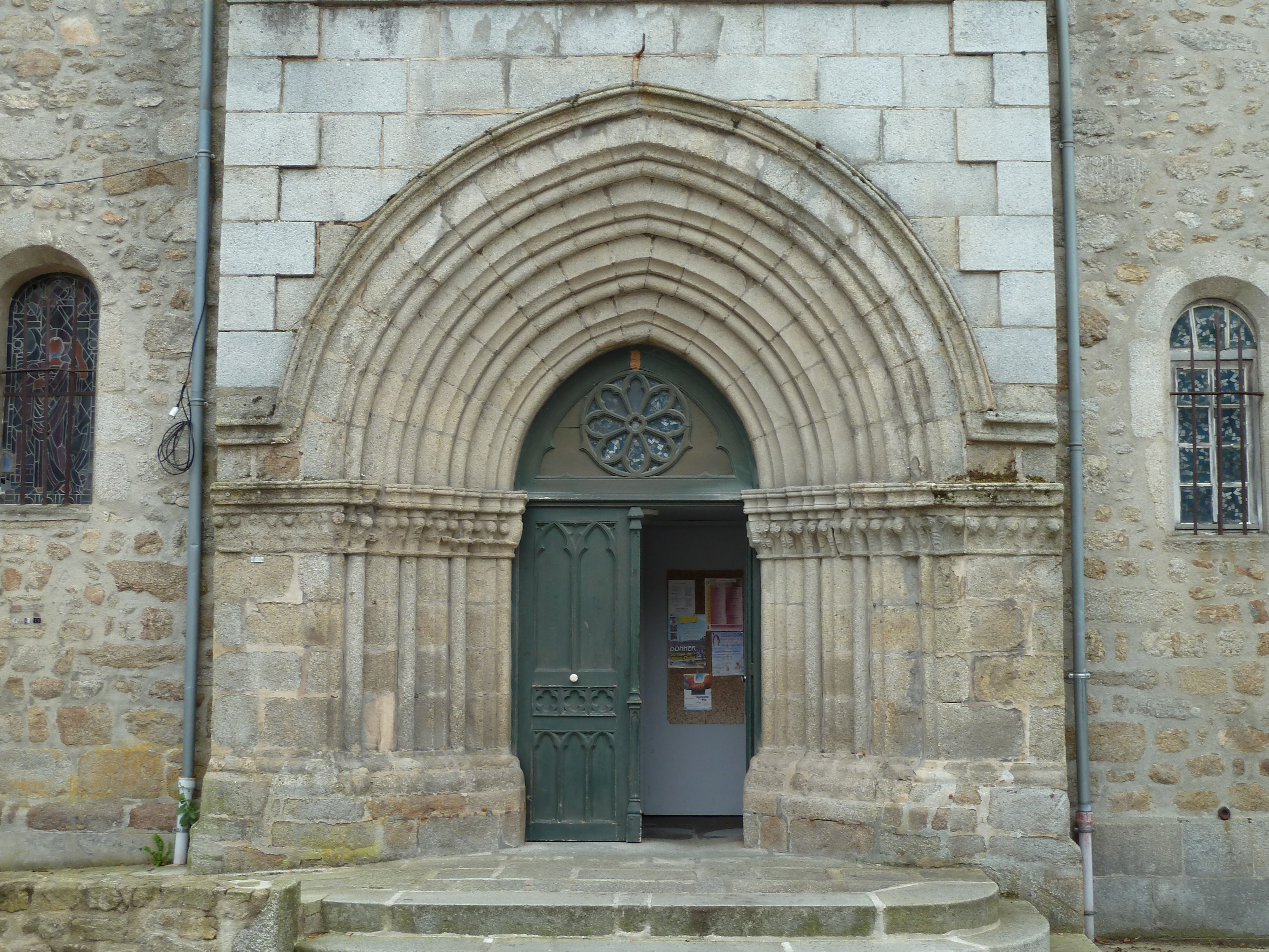 Auzances. Saint-Jacques church (XIIth to XIXth century). Portal.